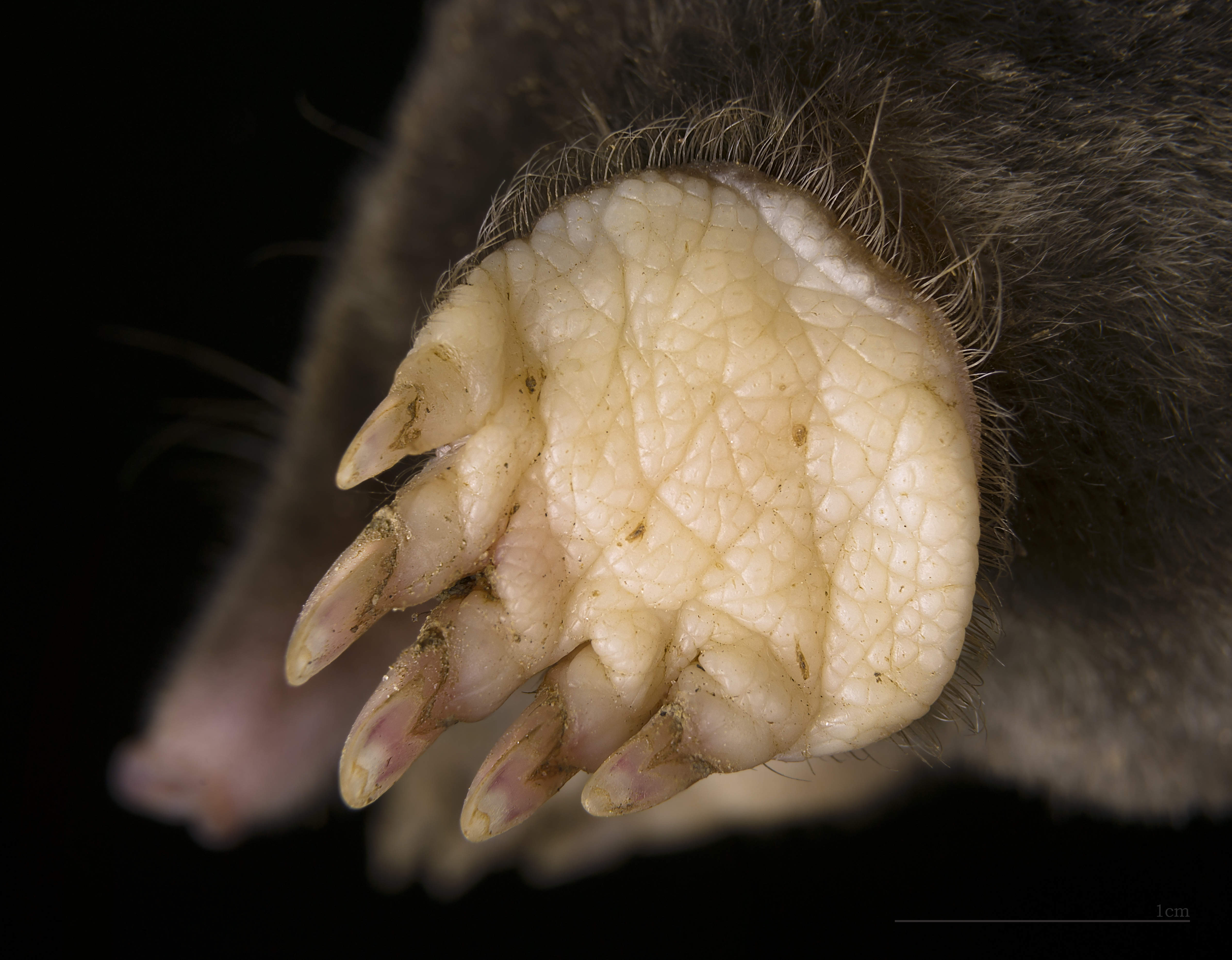 European Mole - Anterior leg - Mole hand.